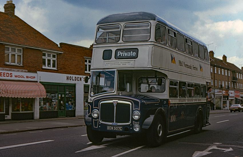 Southampton Corporation Transport 371 AEC Regent V East Lancs (BOW 507C) in Centenary blue and white livery in 1979. Scanned from a Kodachrome 35mm slide.